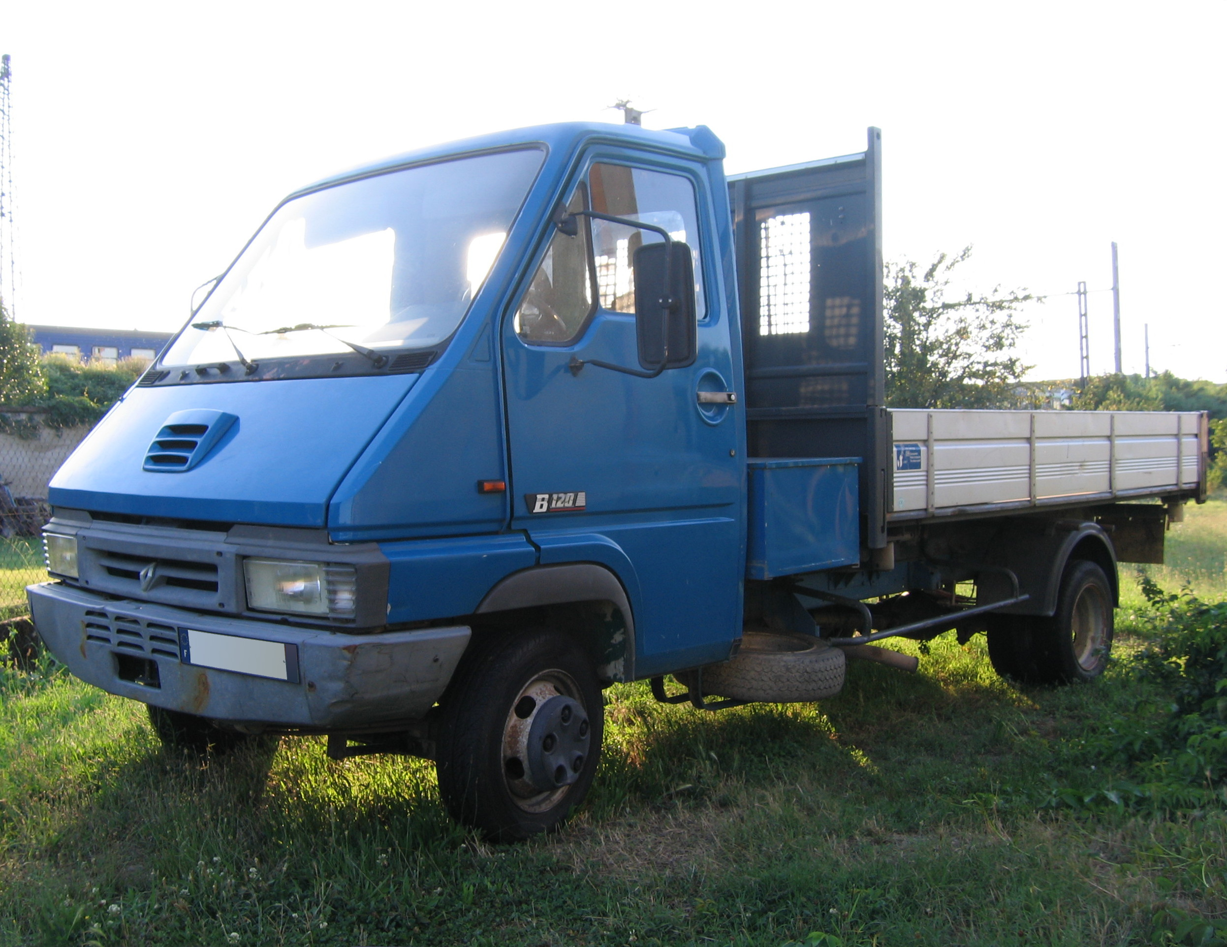 1992-1999 Renault Messenger B120 with a Scattolini flatbed.